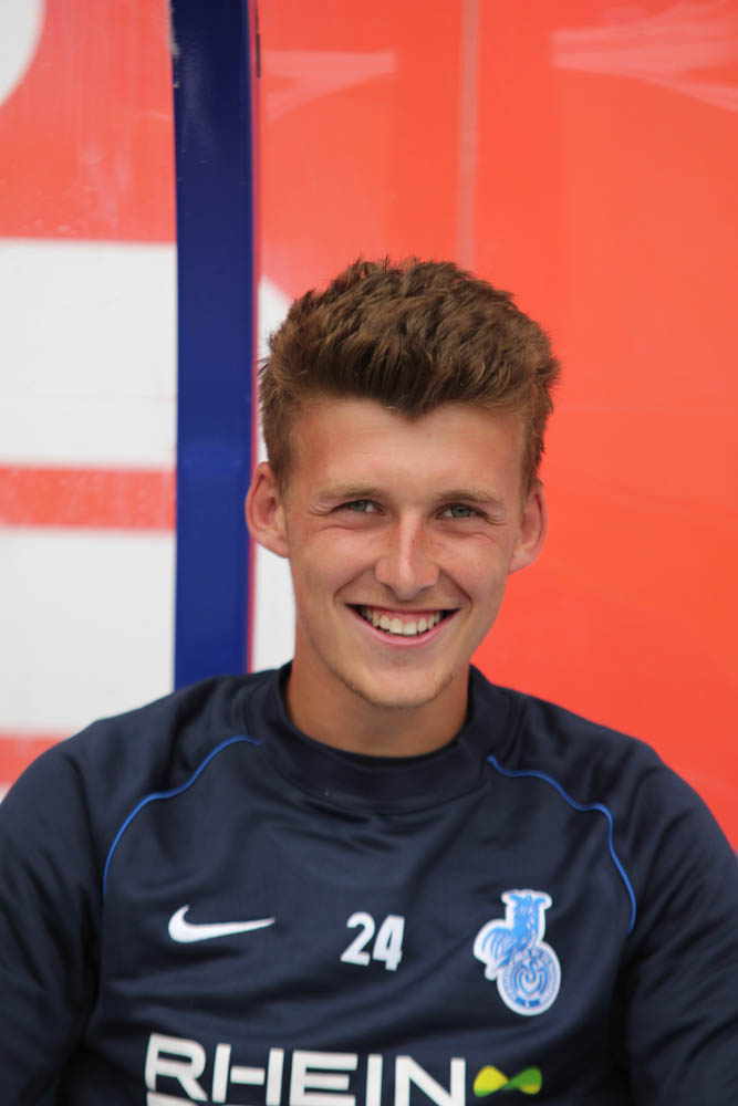 German football player Julien Rybacki, MSV Duisburg